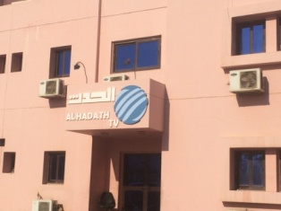 ستوديو قناة الحجث